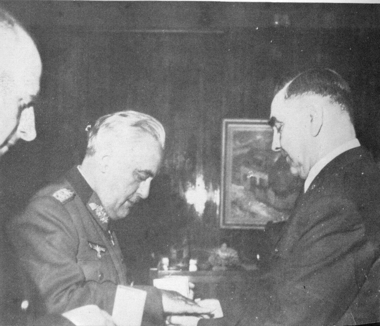 Ante Pavelić, Edmund Glaise von Horstenau and Siegfried Kasche in Zagreb in 1944.